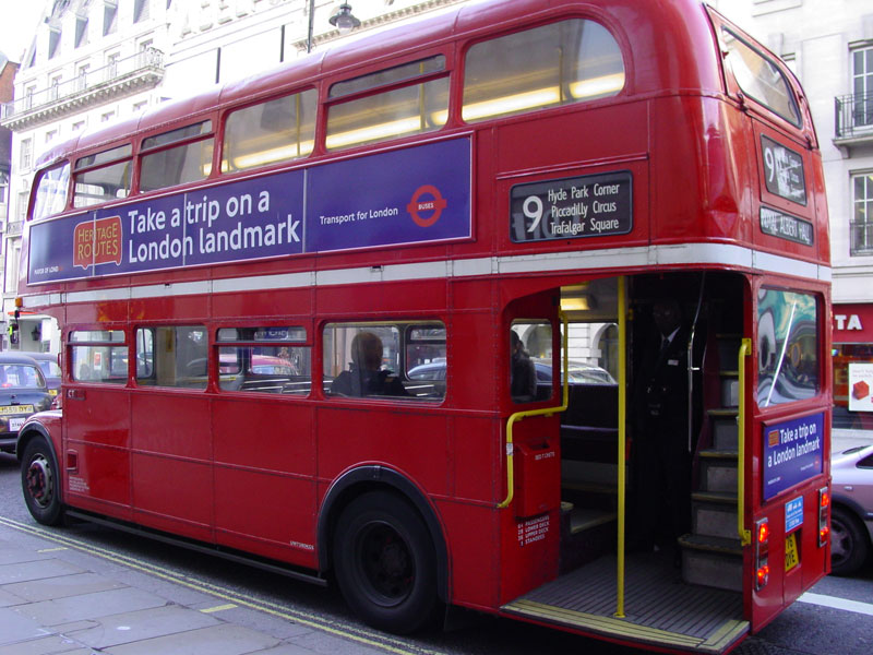 First London Routemaster bus RM1776 (reg. 776 DYE) operating London Buses heritage route 9, pictured in Strand en-route to Royal Albert Hall. The picture was taken in the month the heritage operations started, and this bus is still in it's previous ordinary service livery - it was not repainted into the old style London Transport livery used for heritage routes until December 2005.